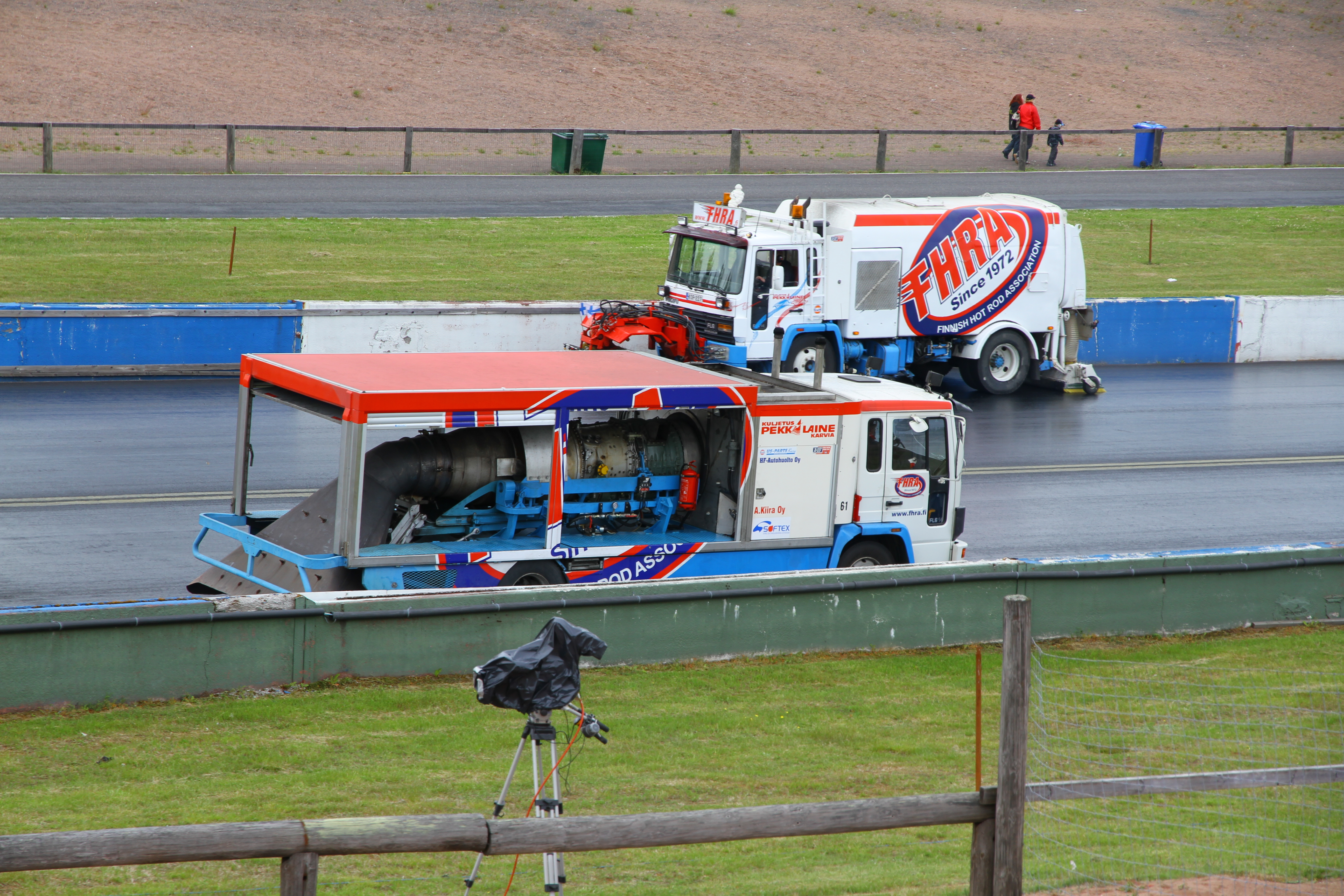 FHRA Kamasa Drag Race Week at Alastaro Circuit, Finland.